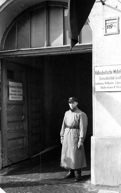 Welfare Office for Ethnic Germans entrance, Litzmannstadt Branch, Adolf-Hitler Straße 119 (Łódź, 119 Piotrkowska Street)